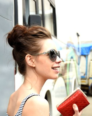 Kalki Koechlin snapped at an ad shoot